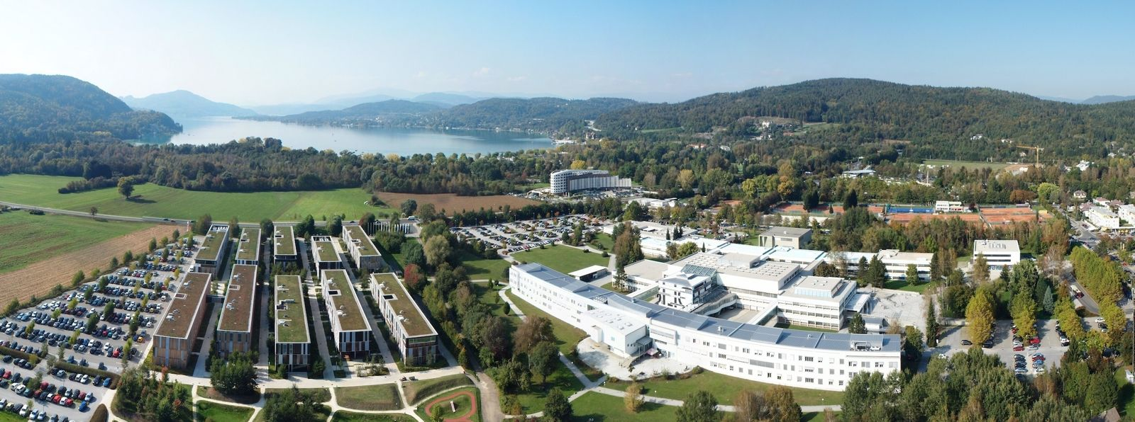 Alpen-Adria-Universität Klagenfurt and the adjacent Lakeside Science & Technology Park